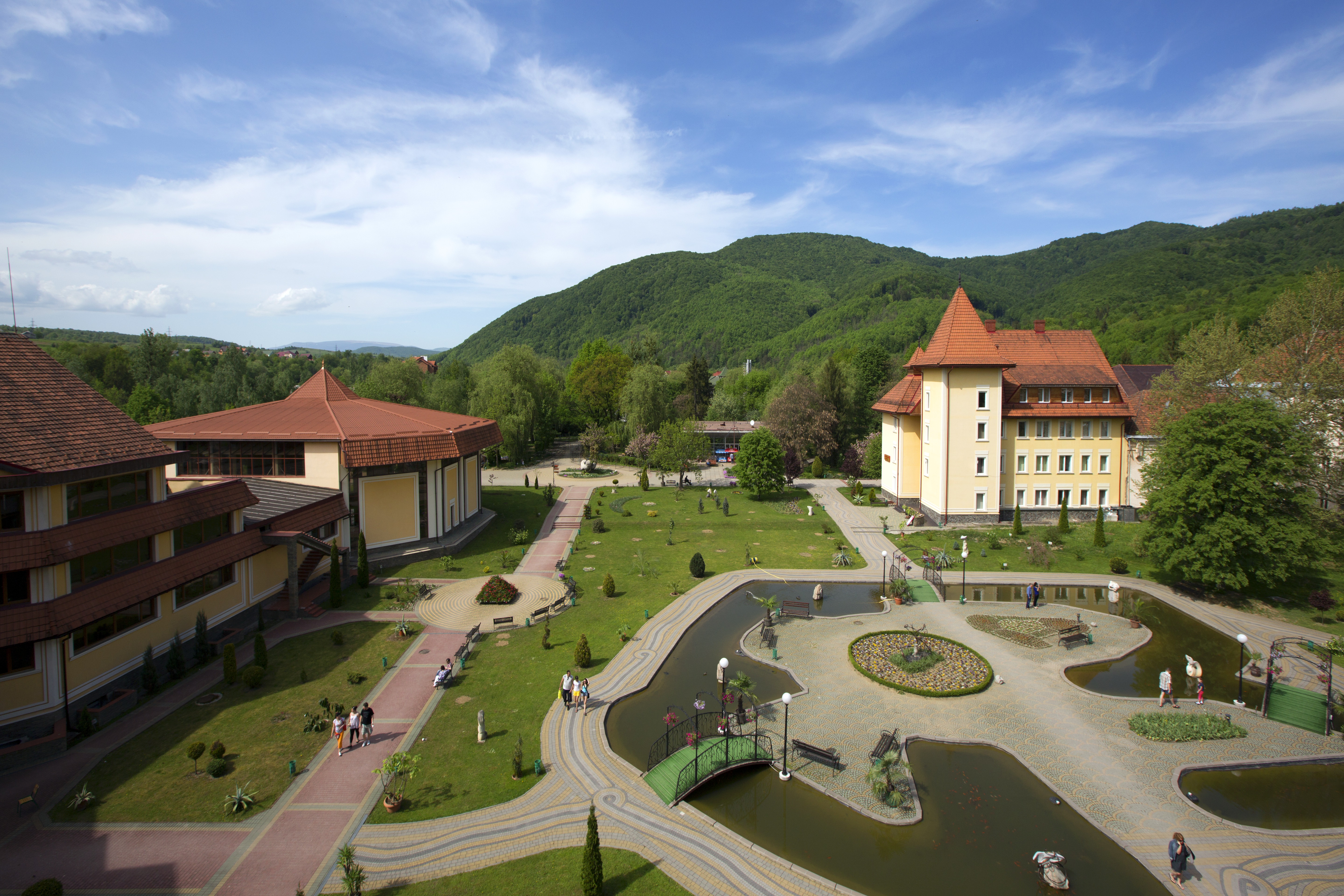 Sanatorium «Kvitka Polonyny». View to medicinal building